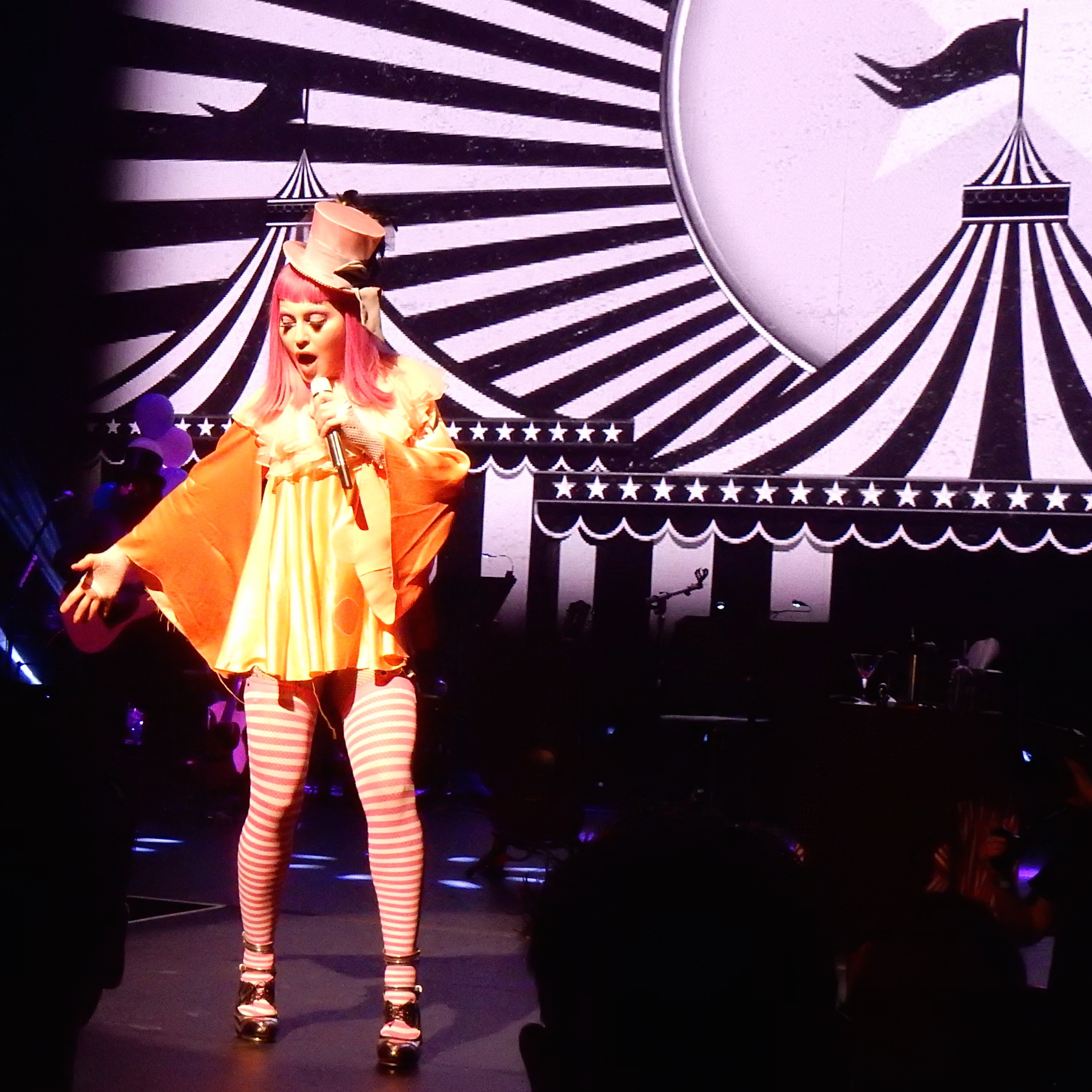 Special fan only show at The Forum, Melbourne, 10 March 2016